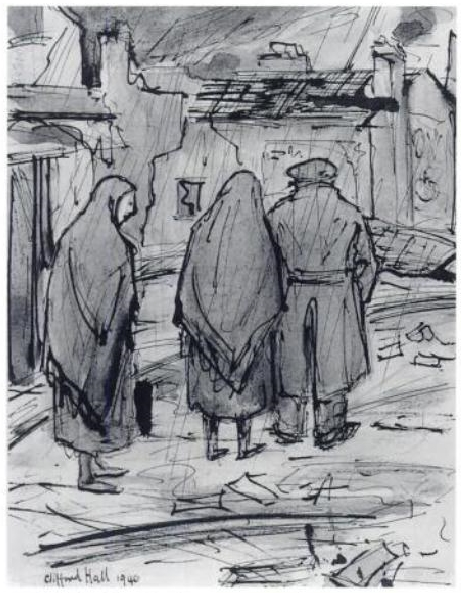 Clifford Hall, Homeless, 1940. Official war art in the collection of the Imperial War Museum.